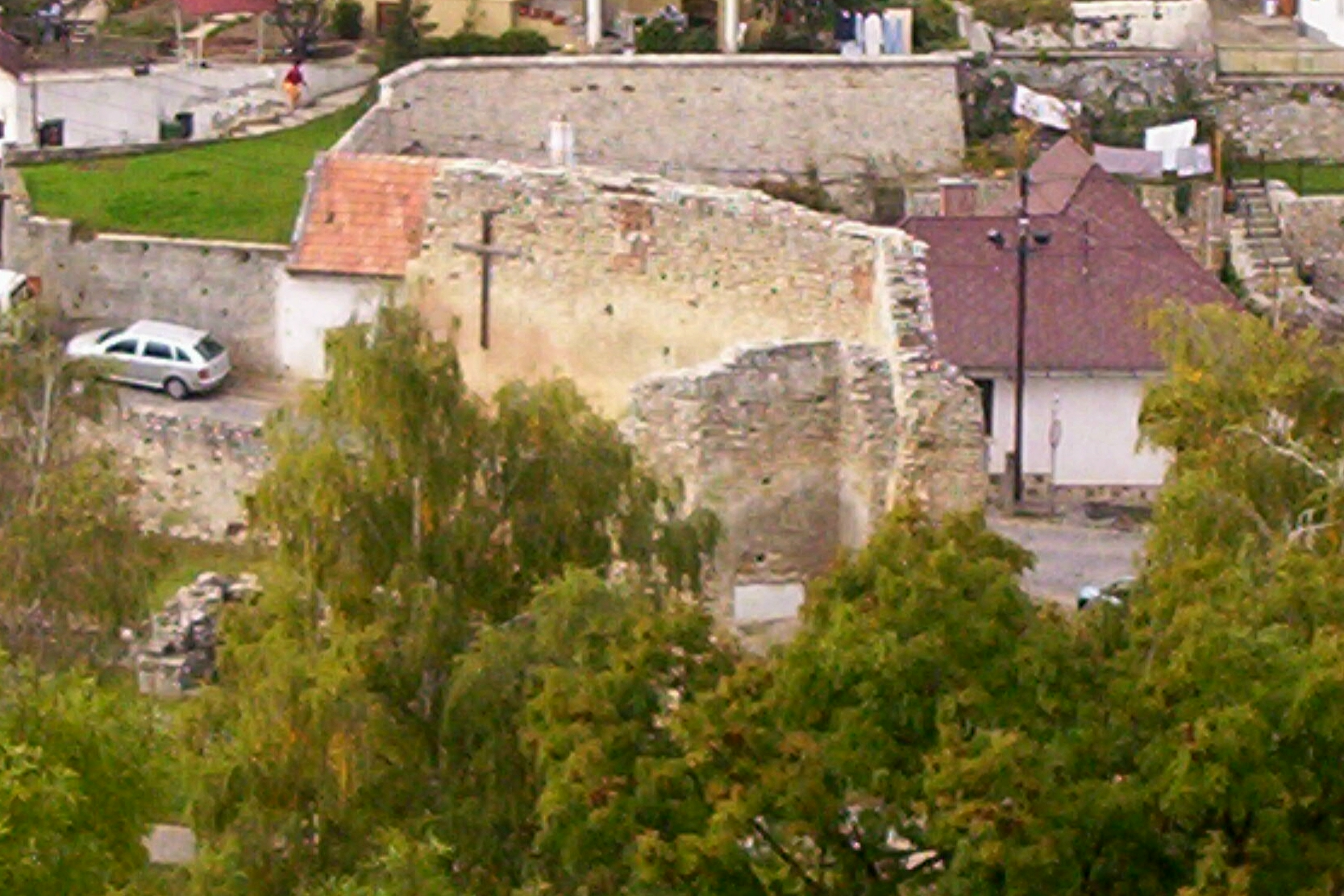 Description: Ruins of the St. Catherine's Convent, called Margaret ruins